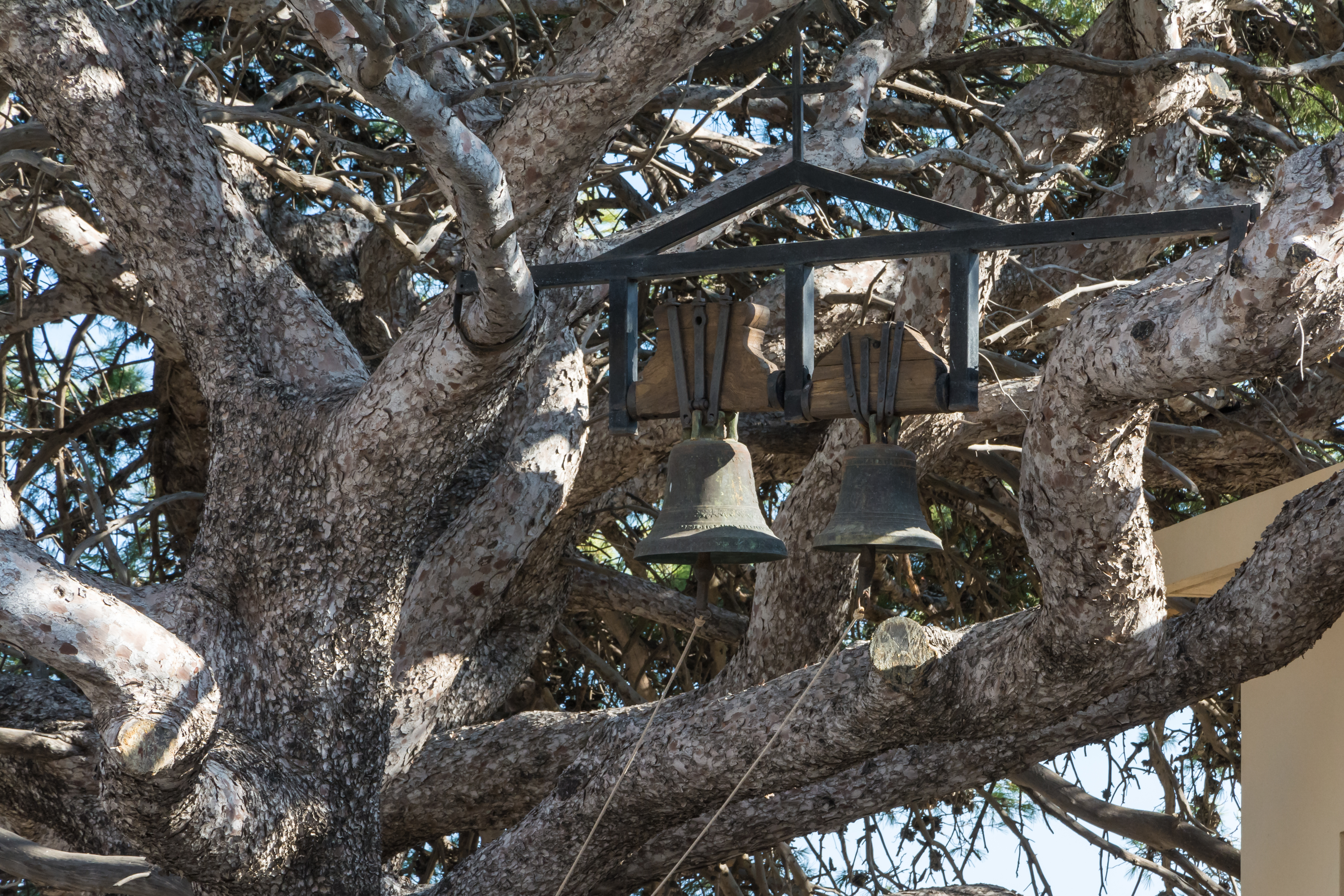 Bells in the branches of a large tree in the Preveli Monastery (Moni Preveli), Crete